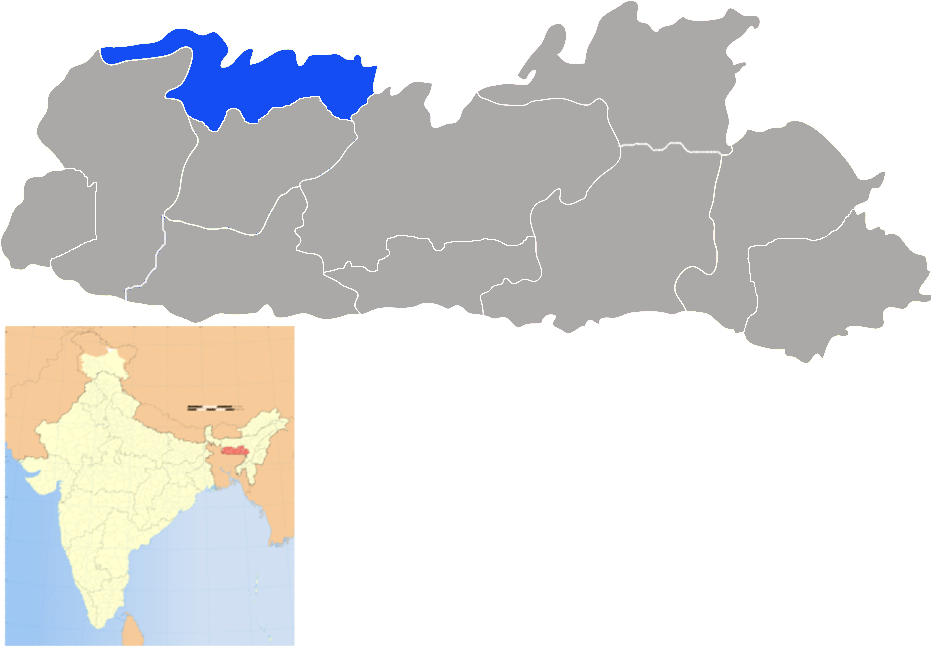 Locator map of North Garo district of the Indian state of Meghalaya.